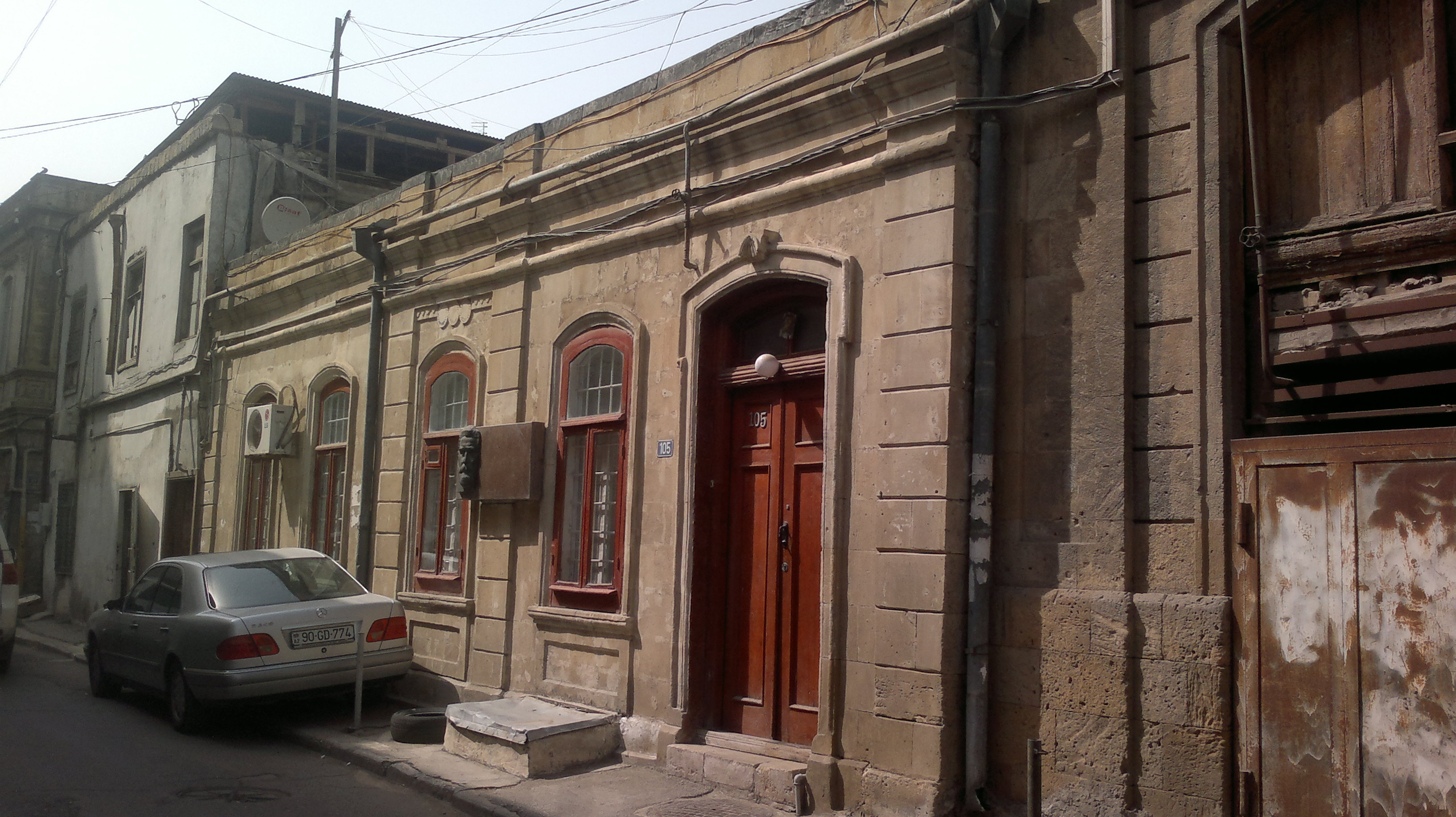 Building on Aliovsat Quliyev Street 105. Meshadi Azizbekov was born here in 1876.